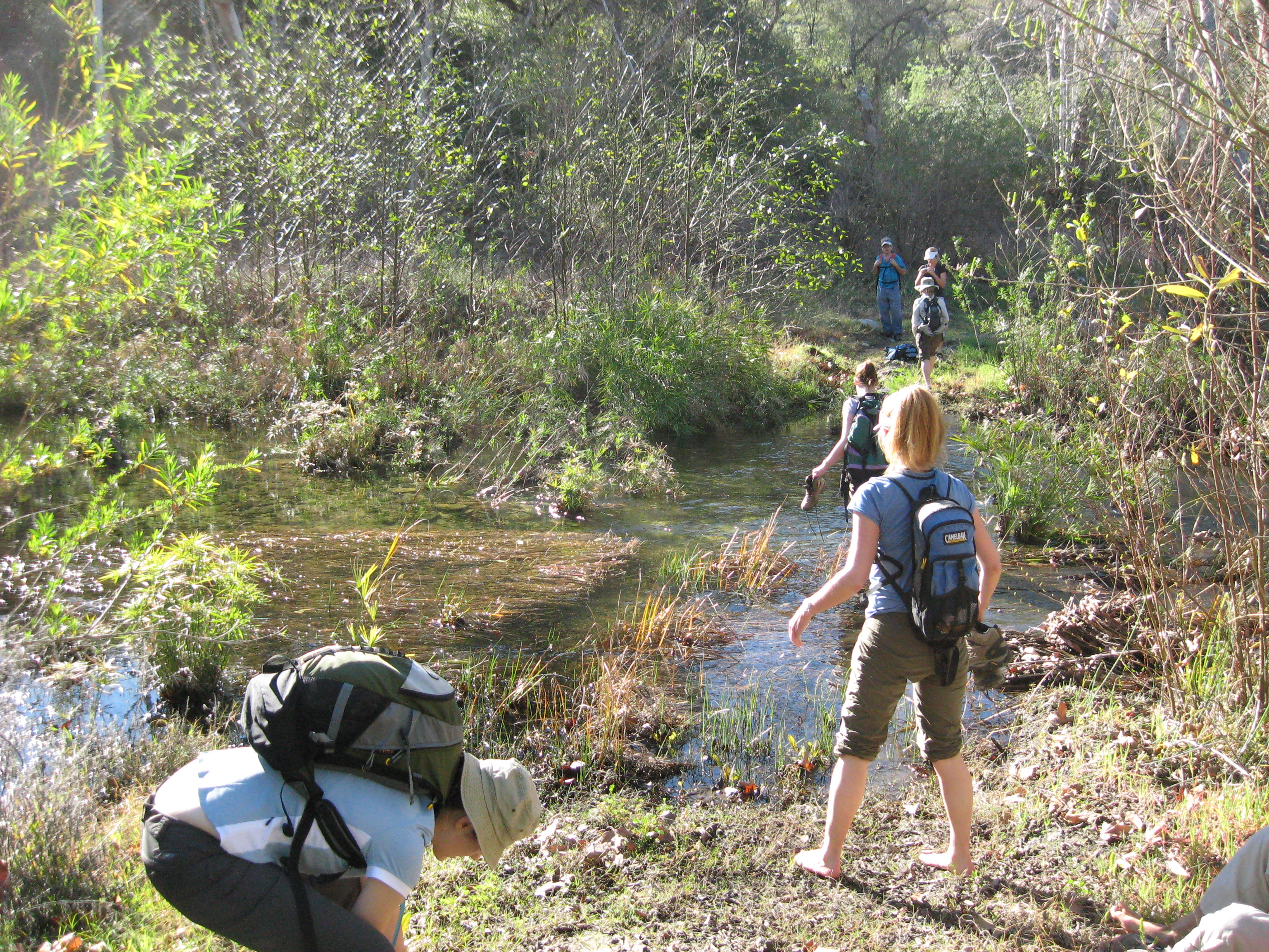 Hikers ford San Juan Creek near the hot springs.